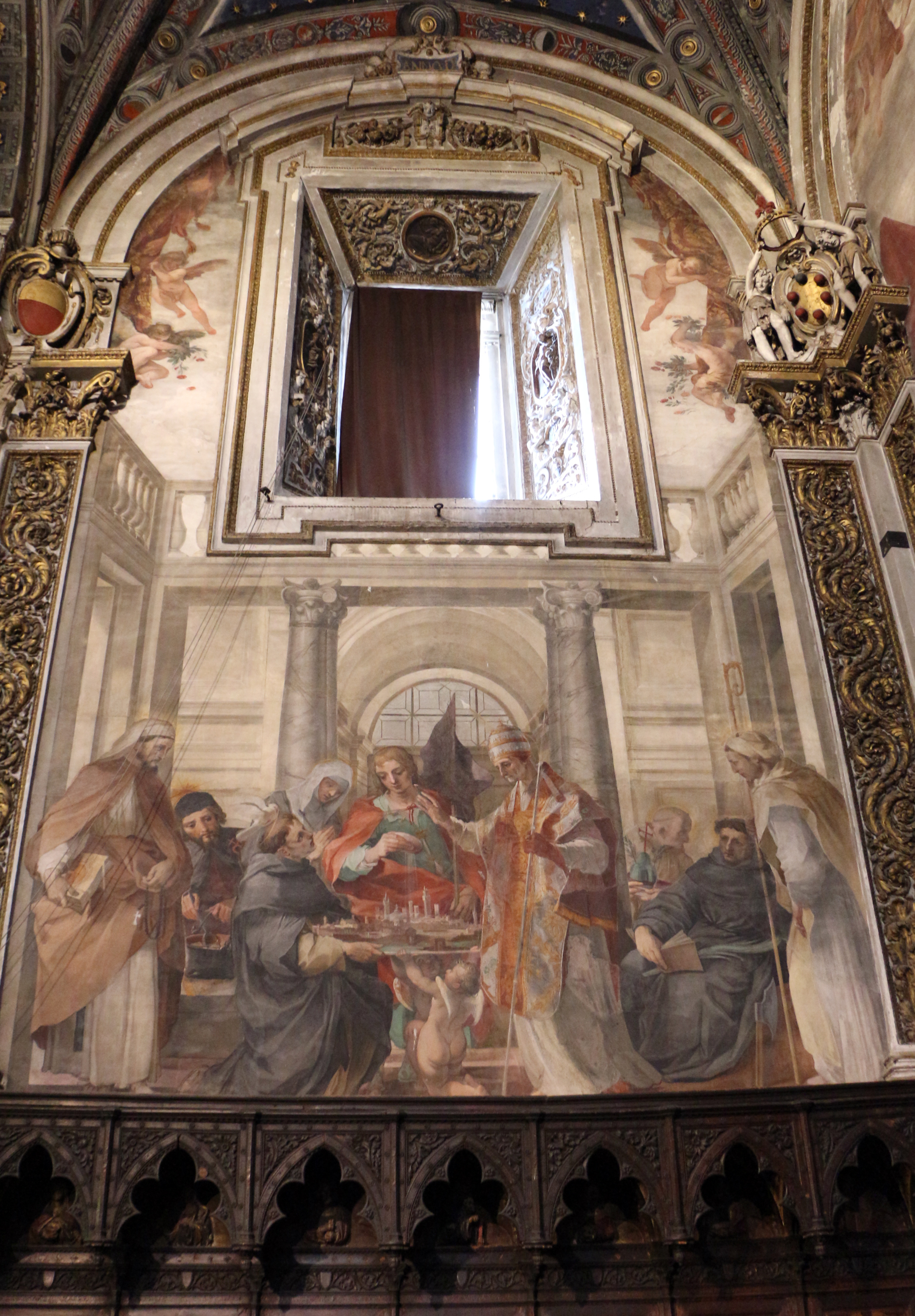 Cathedral (Siena) - Choir